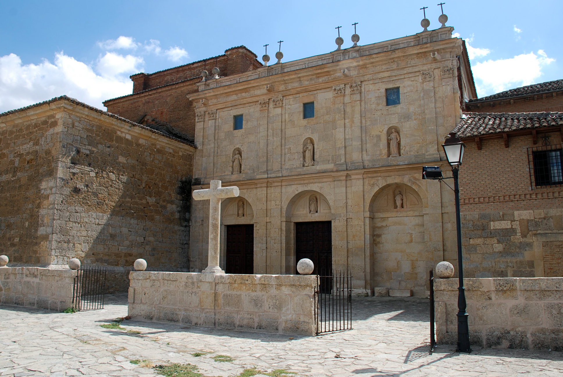 Covent of Santa Clara of Carrión de los Condes (Palencia, Castile and León).